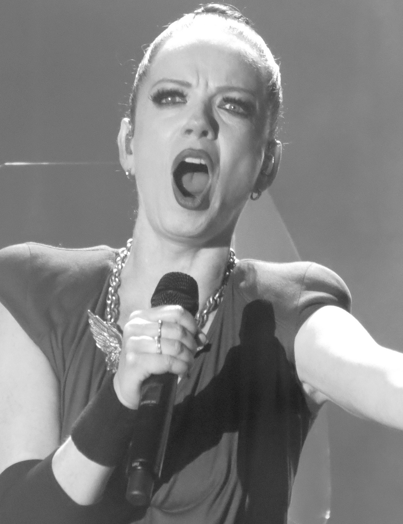 Manson performing as part of Garbage, Uruguay 17 October 2012